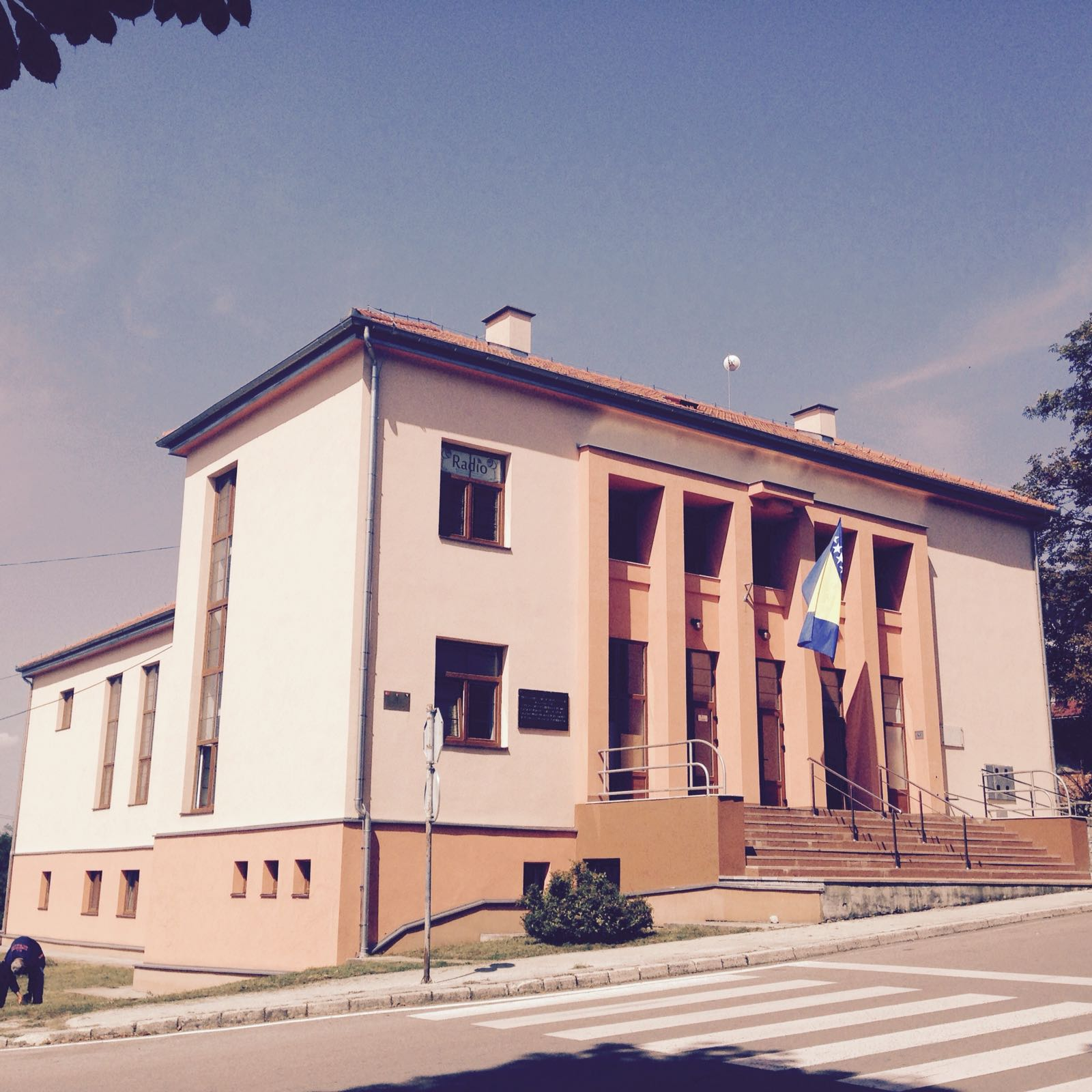 Cultural center - B. Petrovac